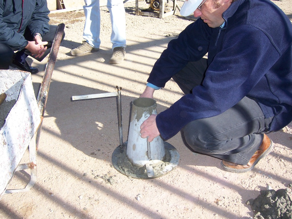 Sampler raising the Abrams slump cone after rodding the fresh concrete